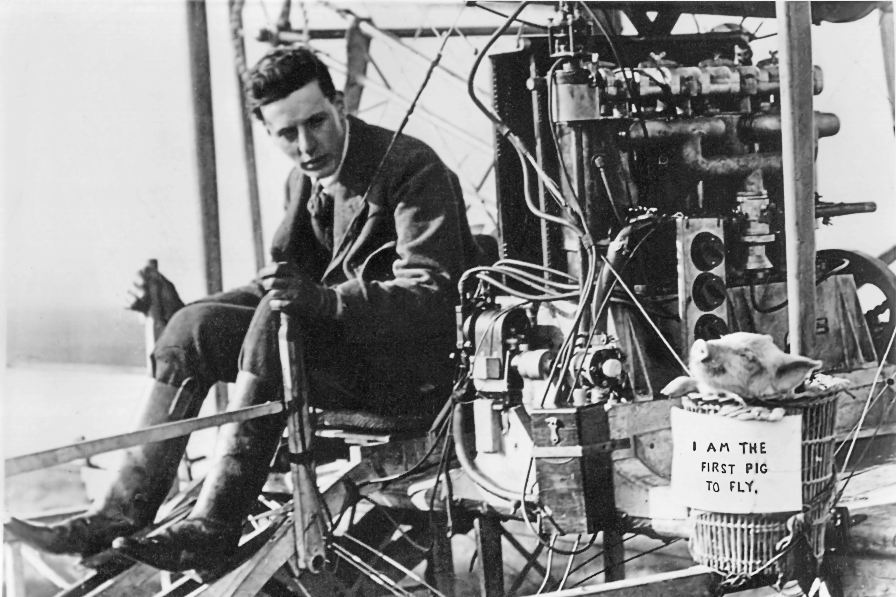 John Moore-Brabazon, 1st Baron Brabazon of Tara and his "First pig to fly", 1909.